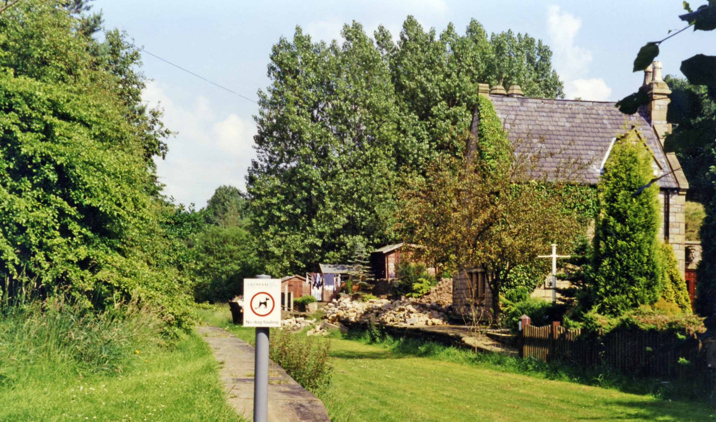 Grotton & Springhead station (remains), 1997. View eastward, towards Greenfield: ex-LNWR Greenfield - Oldham line. The station was closed when passenger services ceased from 2/5/55, but the line reamined for freight until 4/64.